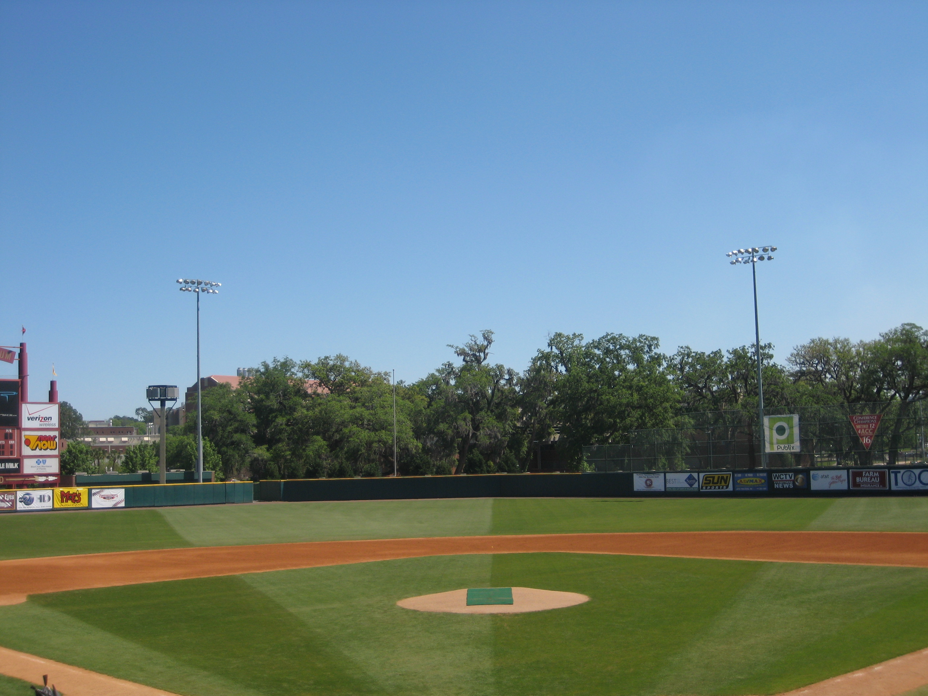 A view from home plate of Mike Martin Field at Dick Howser Stadium.